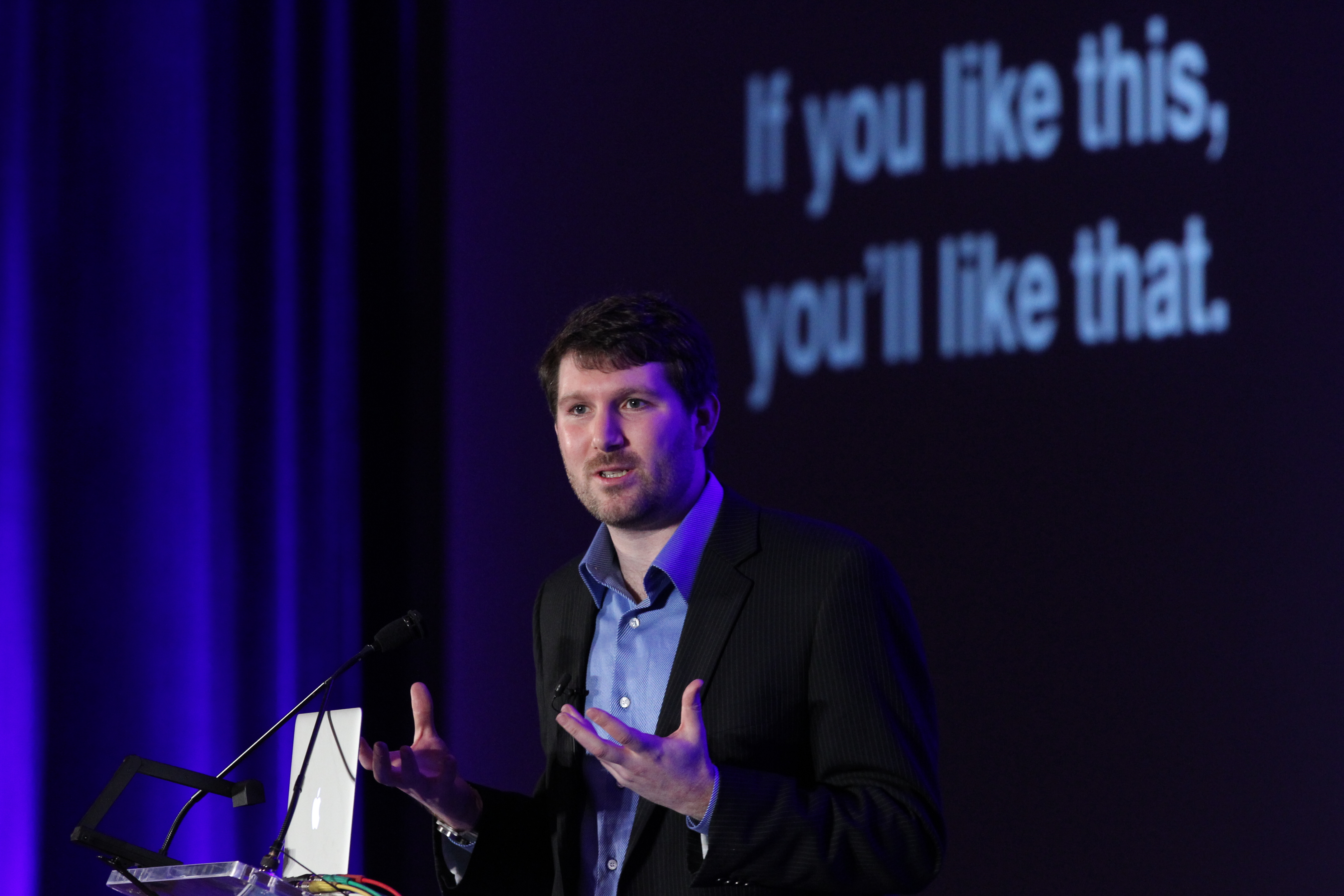 Eli Pariser, author of The Filter Bubble. "If you like this, you'll like that." Knight Foundation's Media Learning Seminar 2012 at the Hotel InterContinental,Miami, Florida on Monday, February 20, 2012.